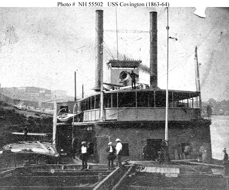 Public domain image of Civil War naval vessel